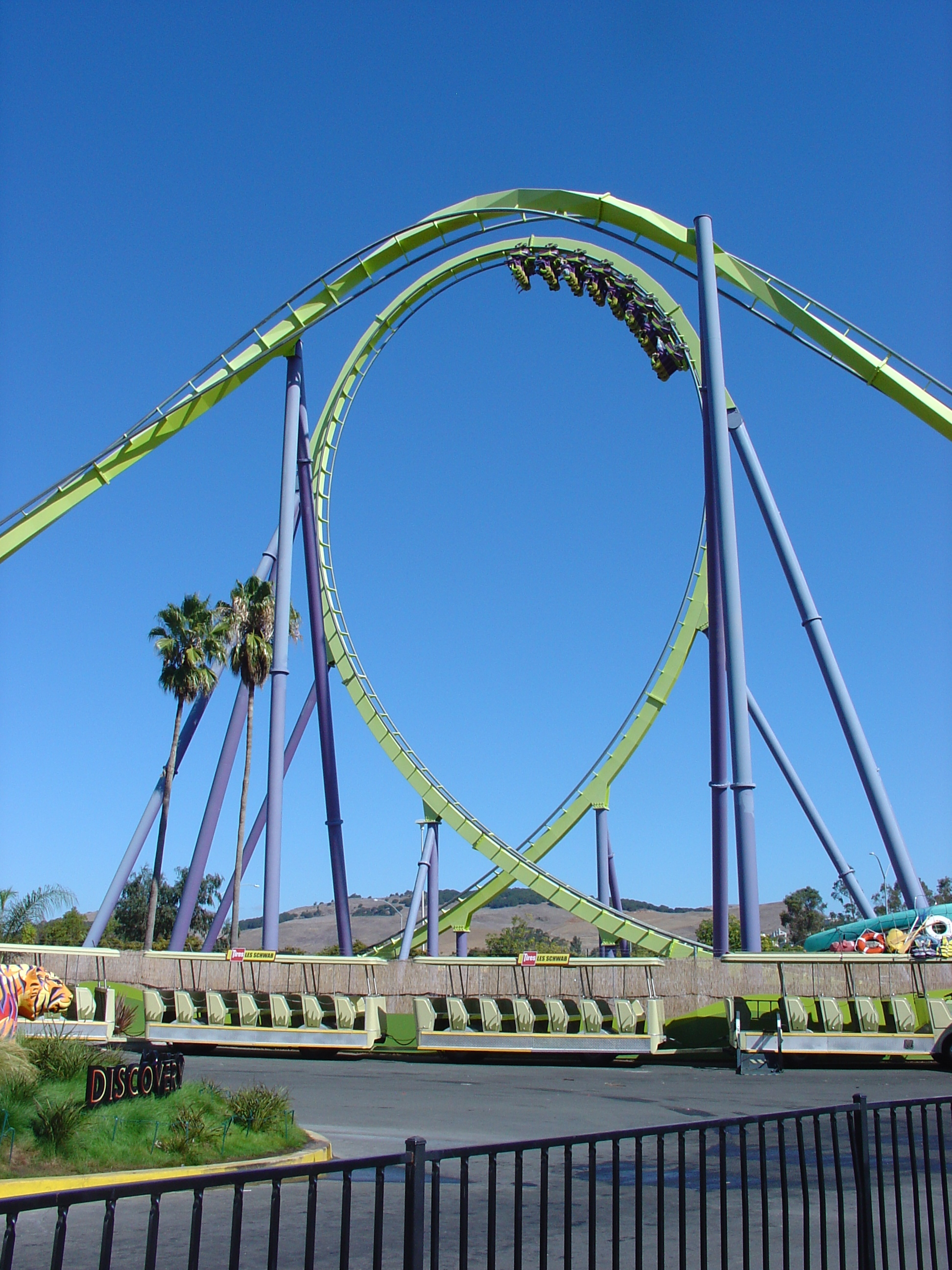 Medusa , montagnes russes à Six Flags Discovery Kingdom